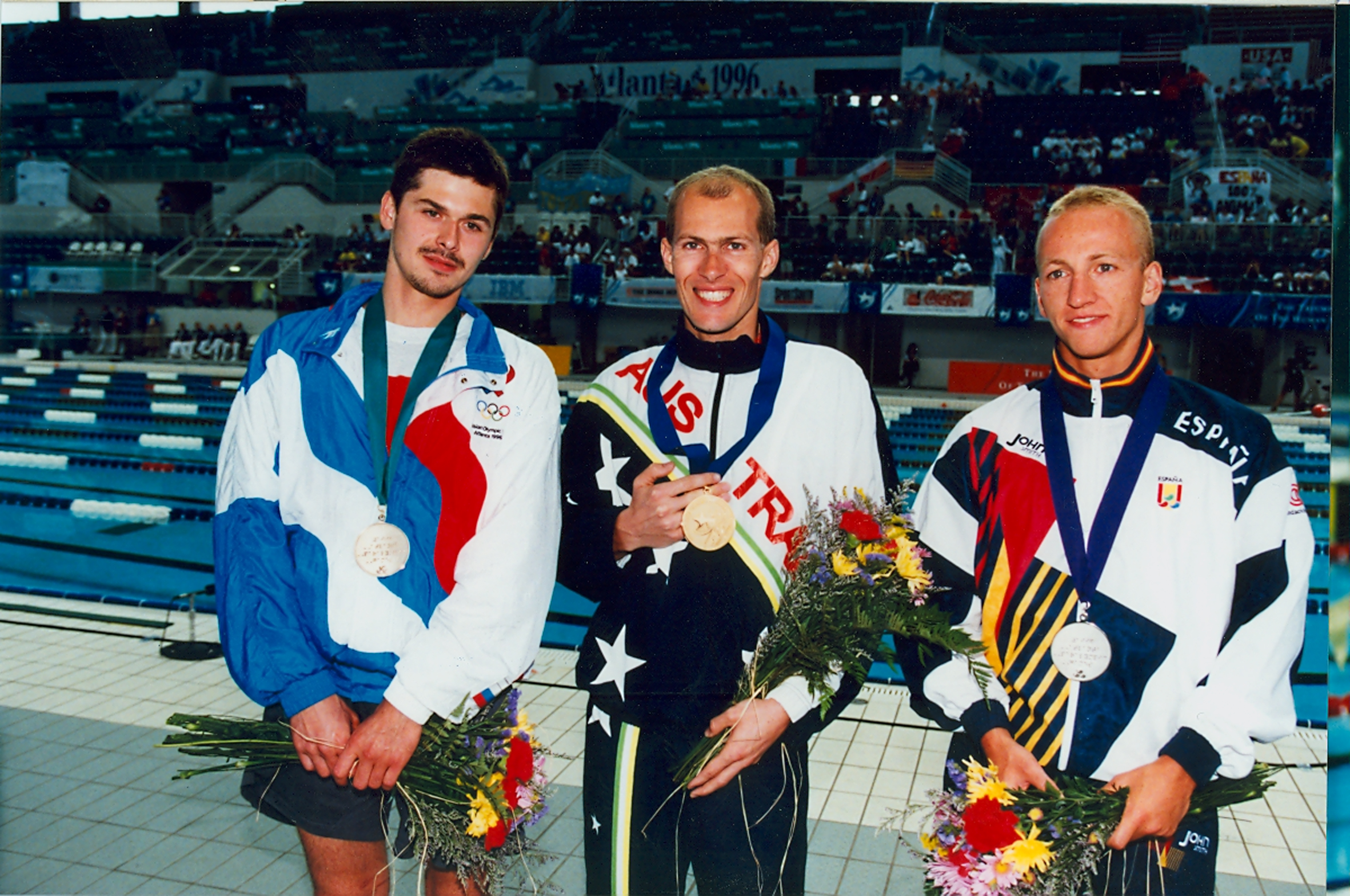 Paralympic medalists Vitali Krylov (left) Kingsley Bugarin (centre) and Jose Arribas (right)